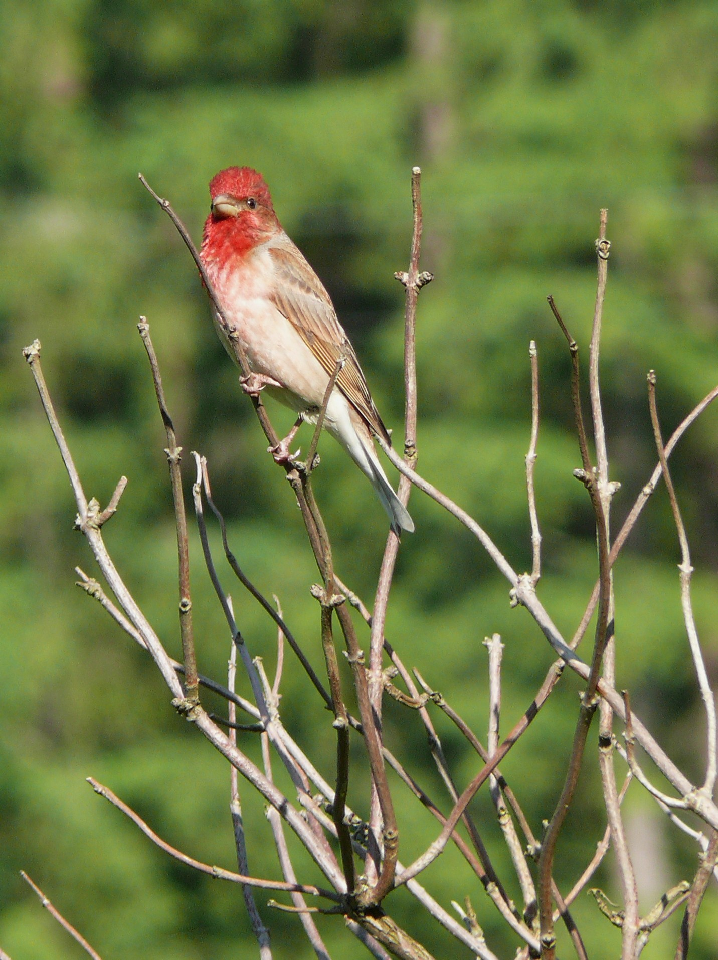 Common Rosefinch (Carpodacus erythrinus), Poland